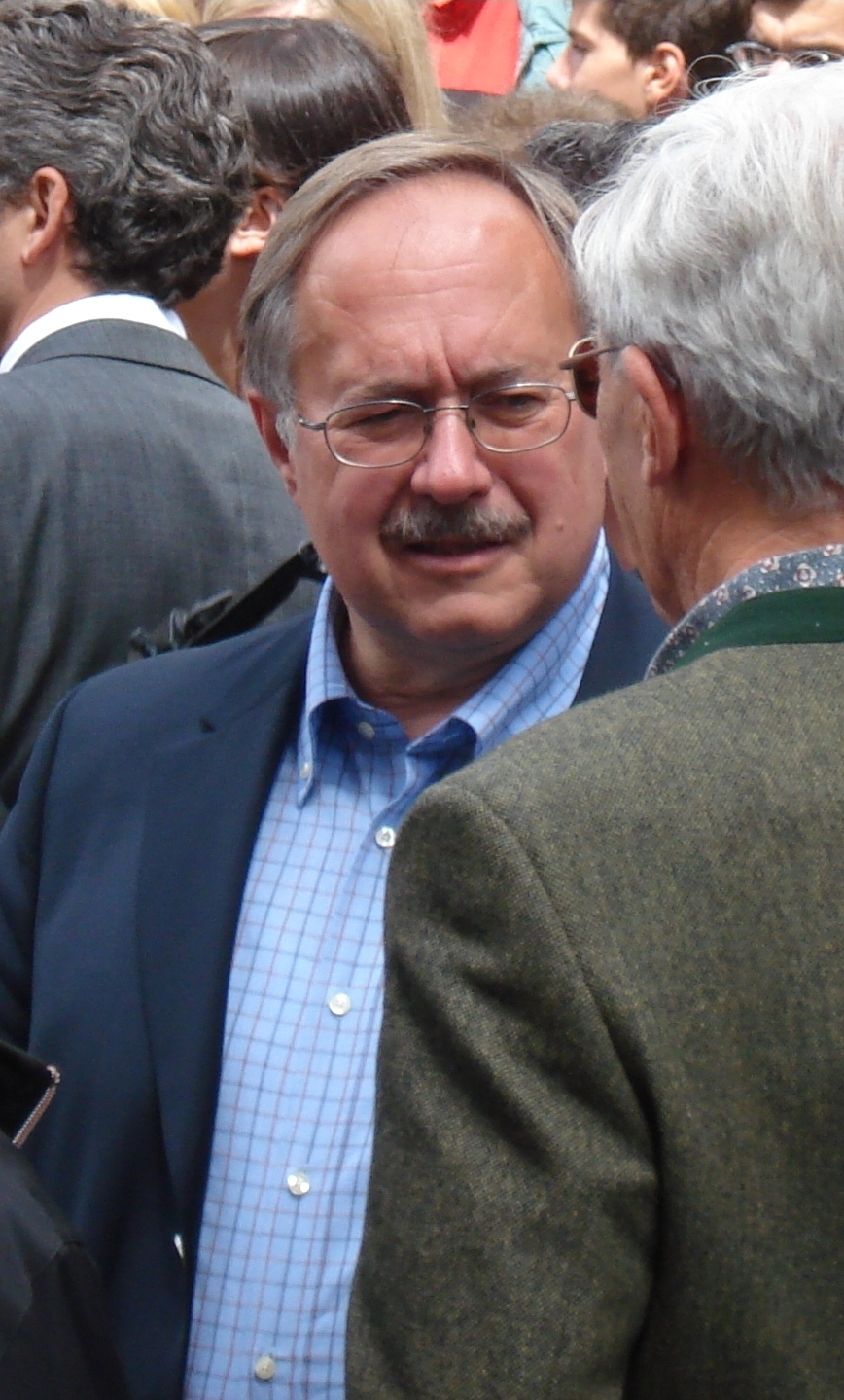 Samuel Schmid, member of the Swiss Federal Council, in Geneva, Switzerland.